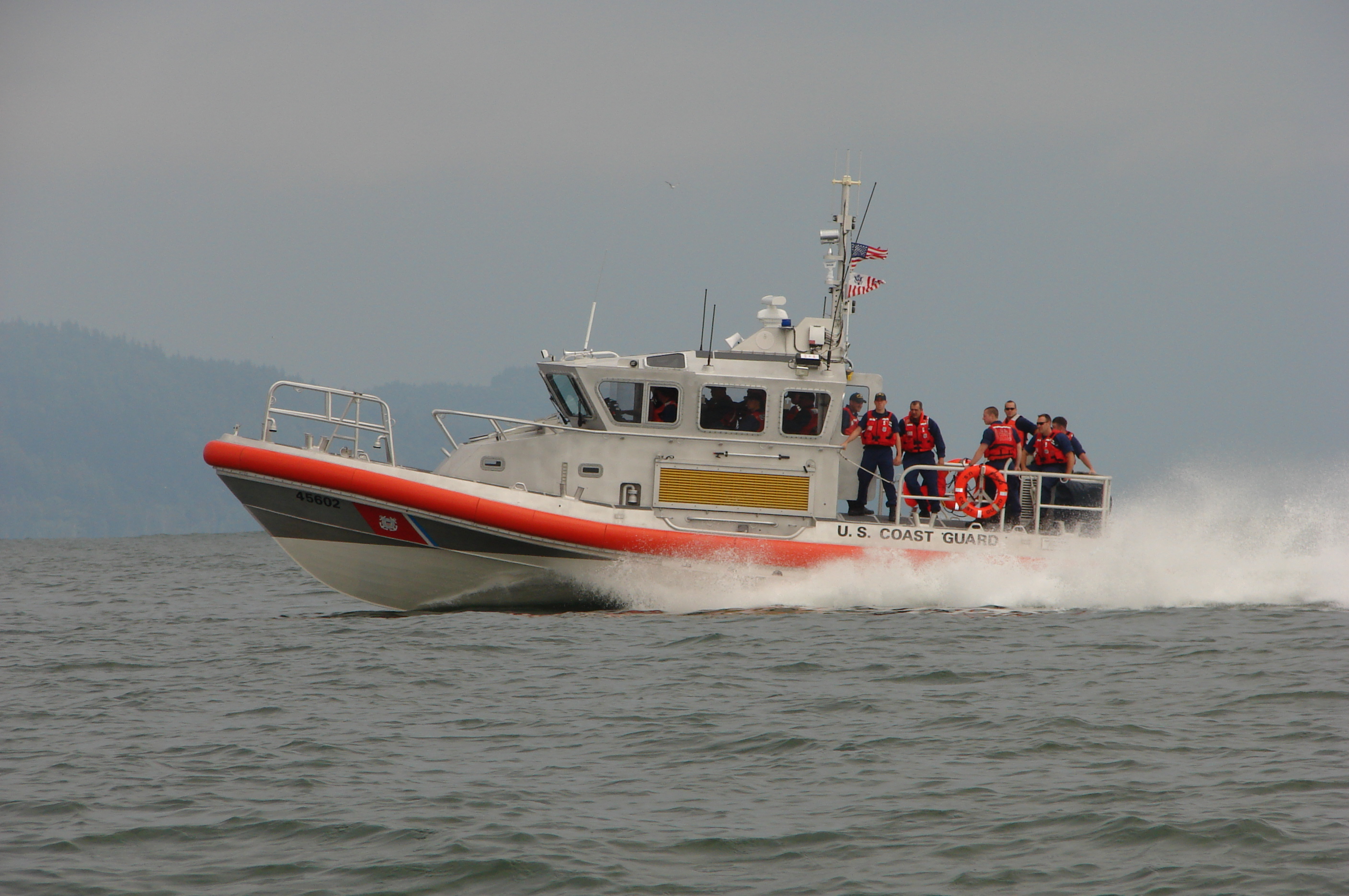 Members of U.S. Coast Guard Station Cape Disappointment conduct their first familiarization ride aboard the station’s new Response Boat - Medium (RB-M), on August 7, 2008, as they began the transition phase. Station Cape Disappointment's boat is the second of approximately 180 boats, half of which will be built in Kent, Wash., by Marinette Marine Corporation's major subcontractor, Kvichak Marine Industries of Seattle.